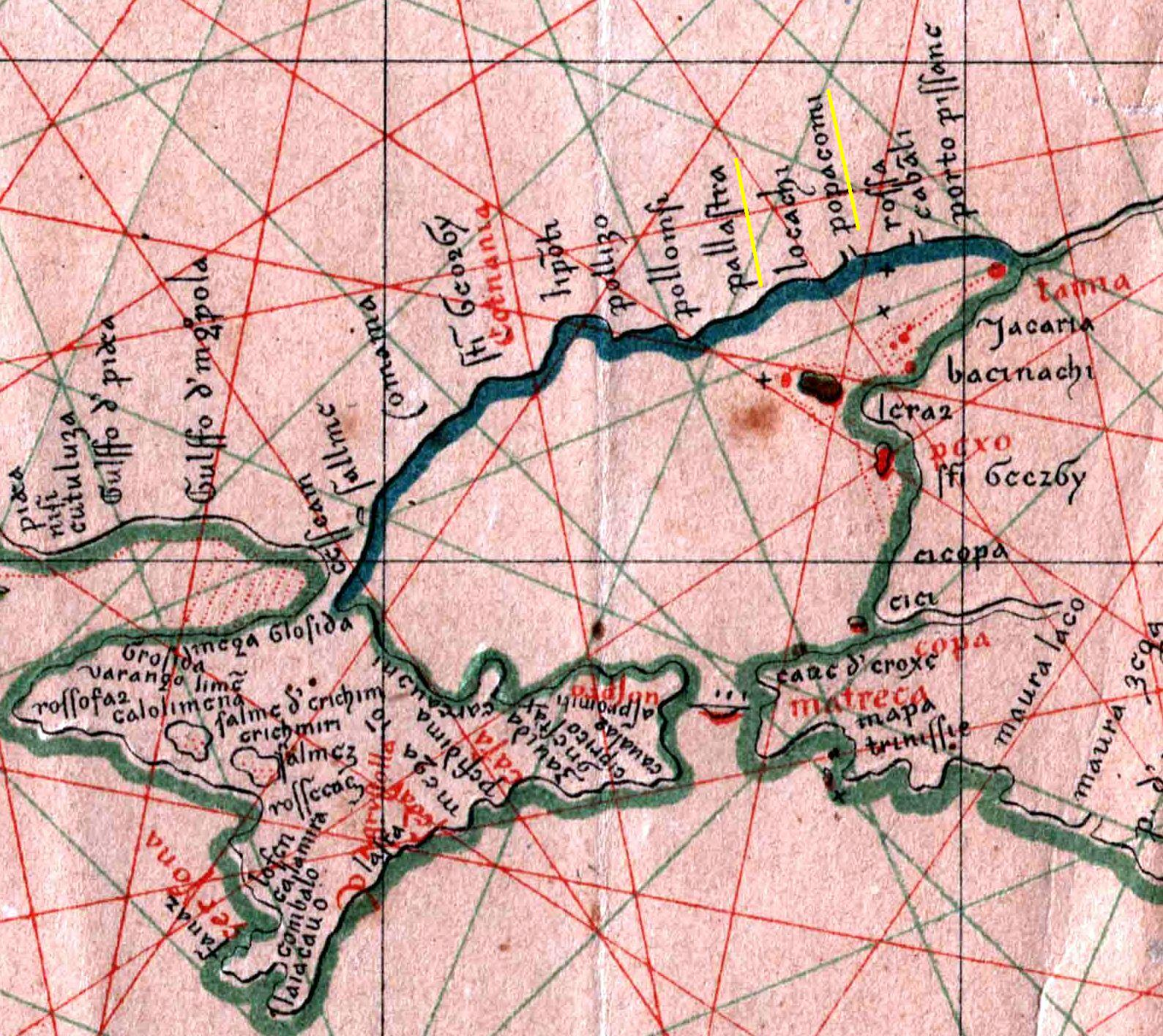 Reference Map Petro Vesconte 1318 with the image of the Crimea, Azov Sea